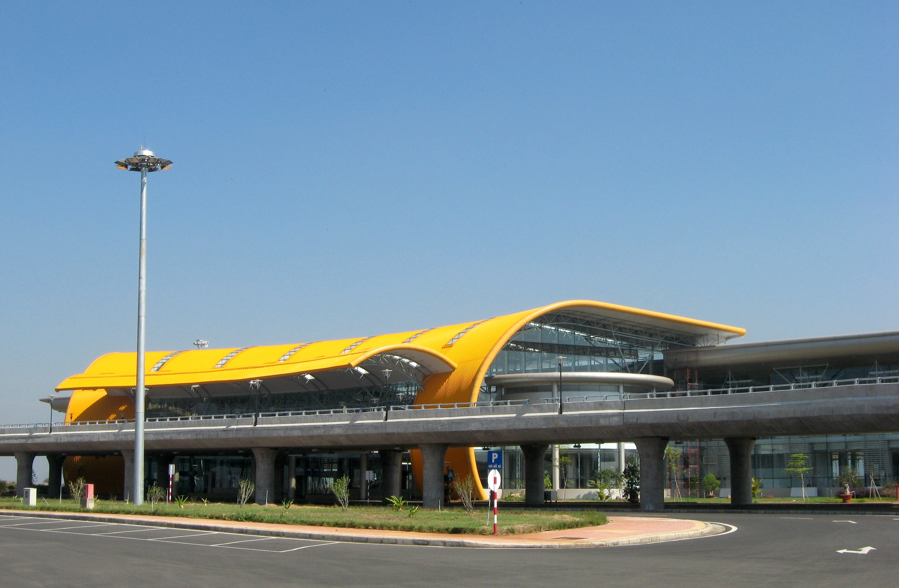 Lien Khuong Airport